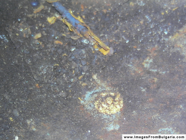 The Thracian tomb "Goliama Kosmatka", Bulgaria